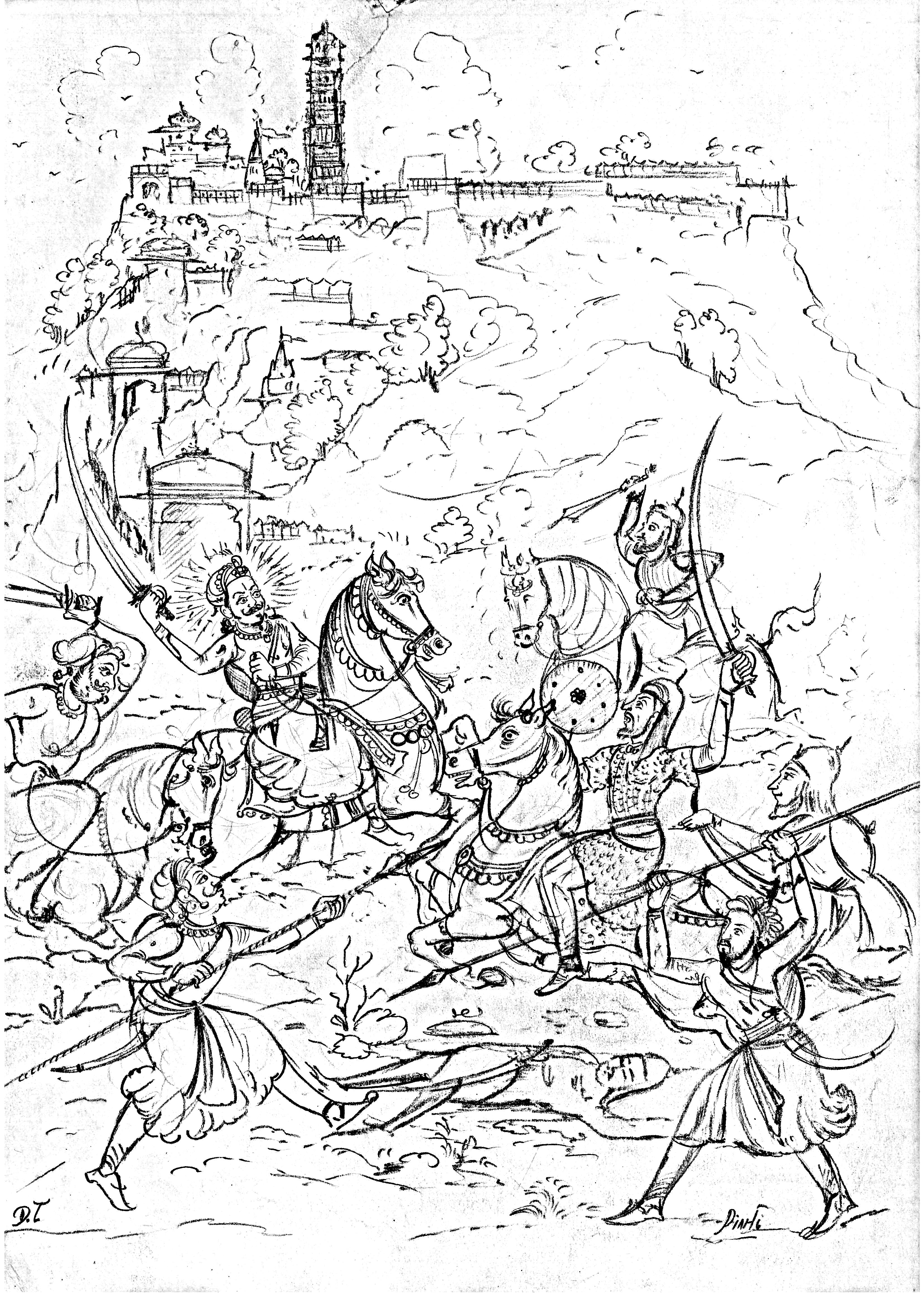 Battle scene of 1303: Raja Shree Karan fighting alongside Rana Ratan Singh I against Allaud-din-Khilji